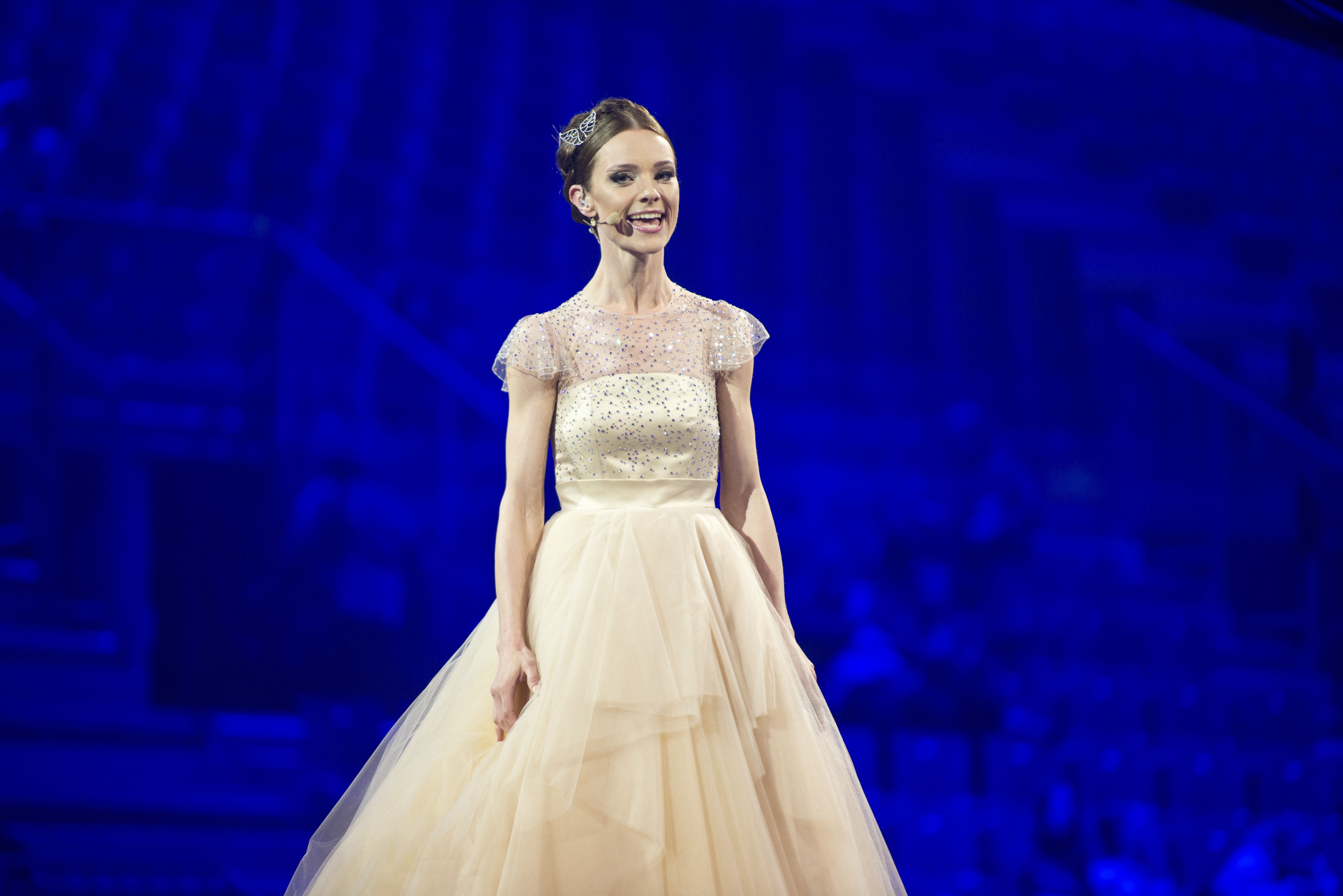 Lise Rønne during the Eurovision Song Contest 2014 Copenhagen. (Help translate this text)